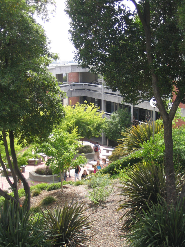 Piedmont Middle School, as seen from Piedmont High School. Photo taken Friday after school on May 25, 2007.